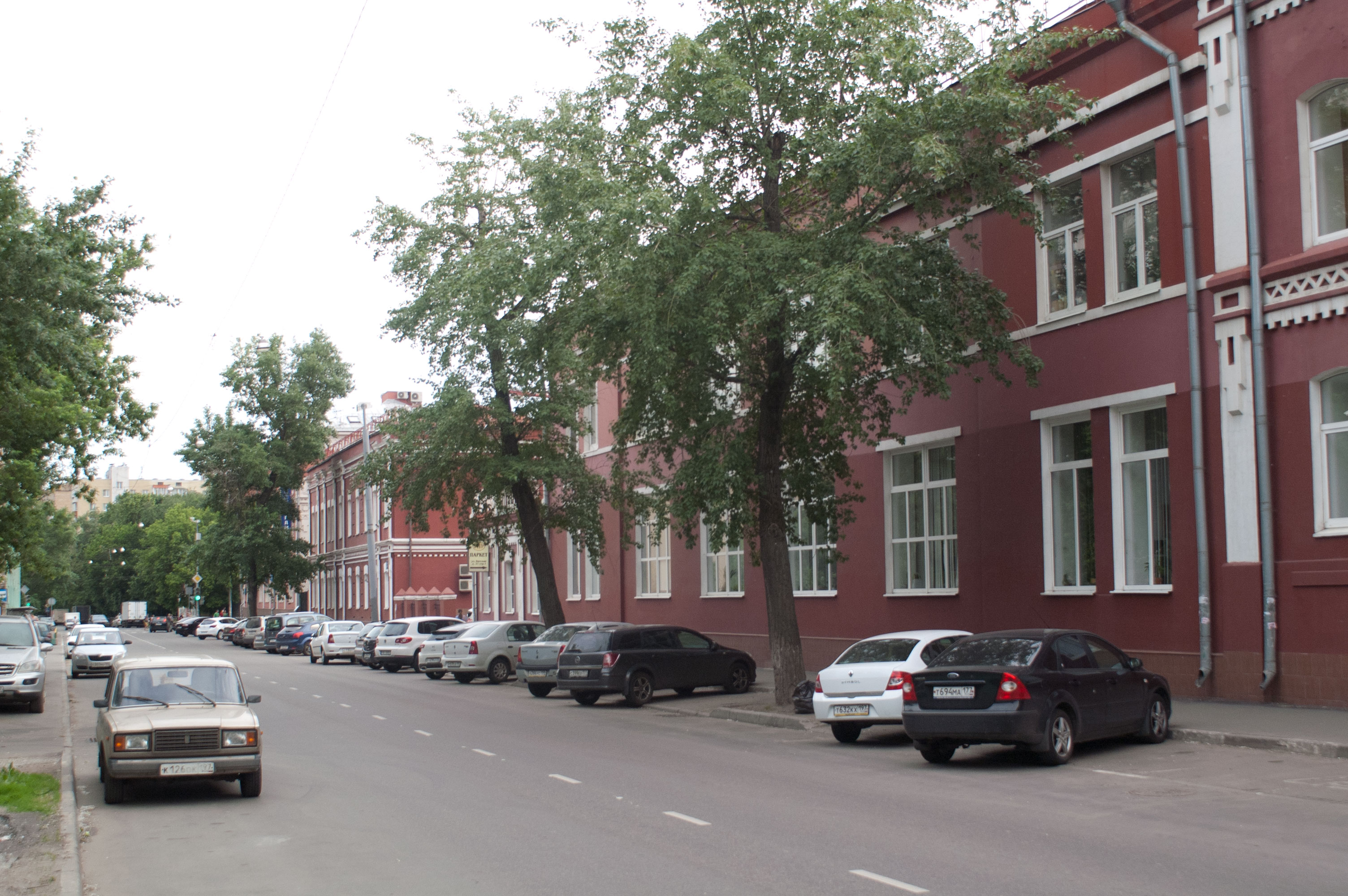 Viatskaya Ulitsa (street) in Moscow